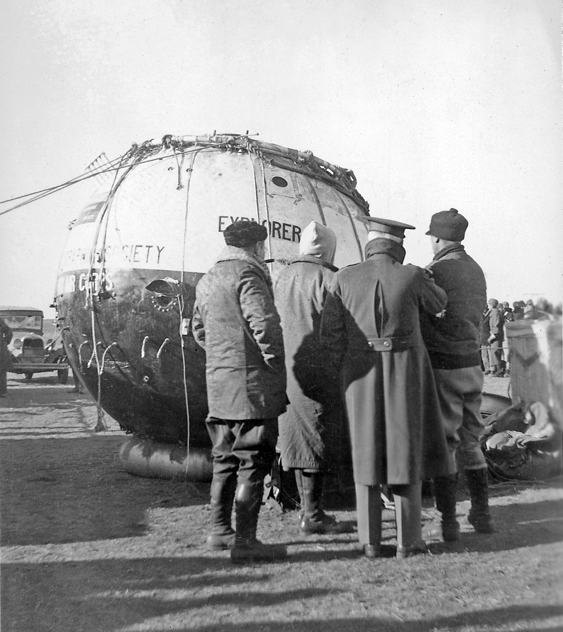 Scope and content: This National Geographic Society-Army Air Corps balloon set a world manned altitude record of 72,395 ft. on Nov. 11, 1935. The pictures show various views of the gondola on the ground, CCC personnel, Army and National Geographic Society personnel, and the balloon being folded into a ground cloth.